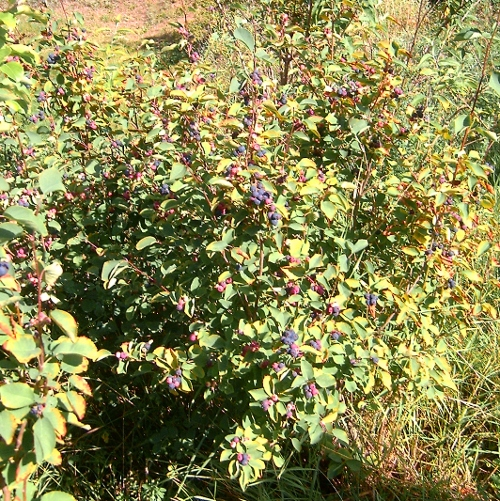 Amelanchier_ovalis, june 2009, Brno Žabovřesky, ZŠ náměstí Svornosti